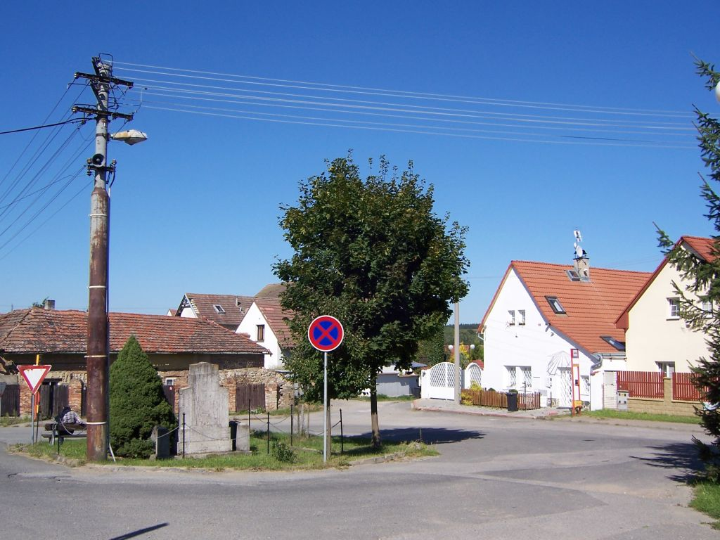 Chýnice, village square